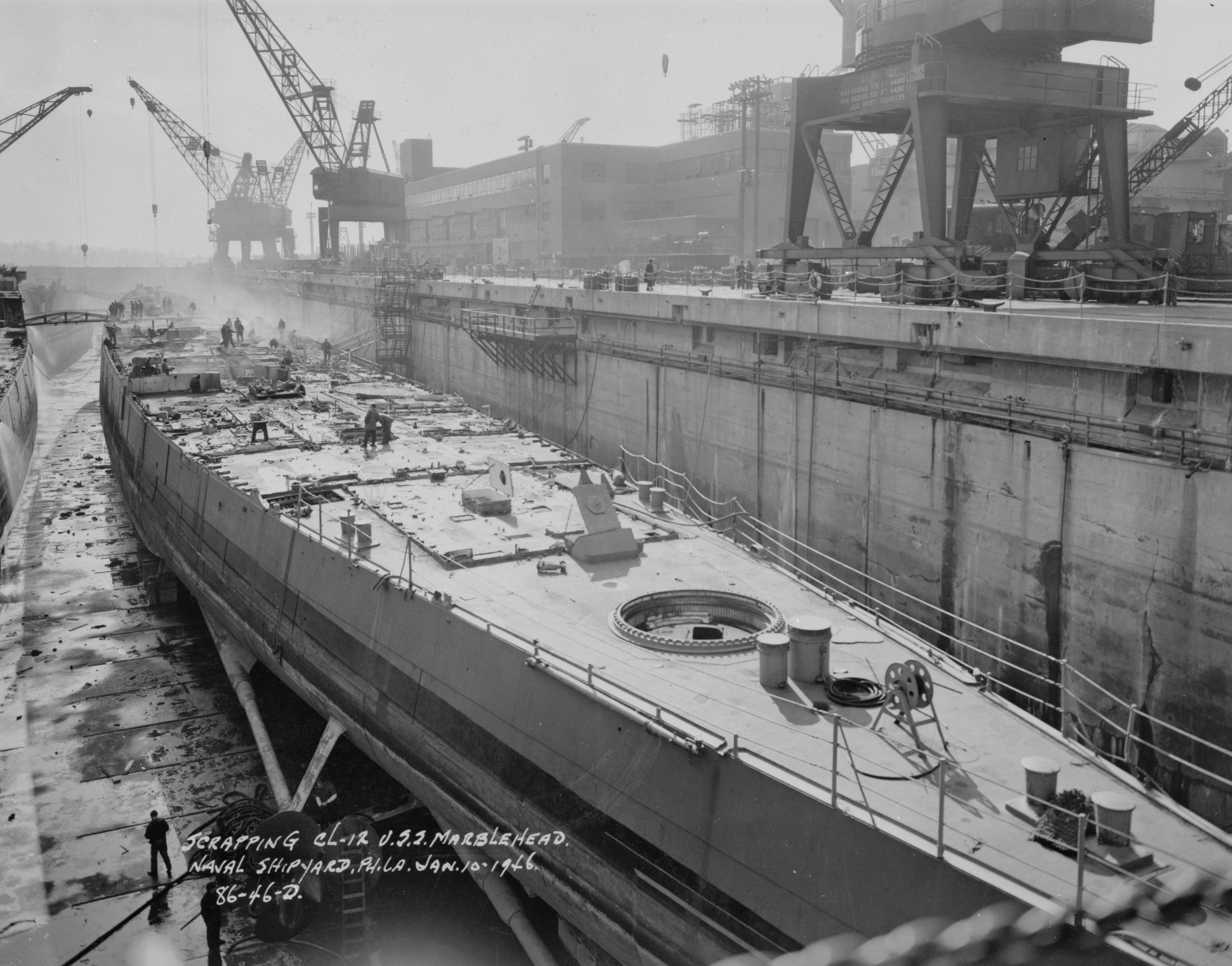 Scrapping of the light cruiser USS Marblehead (CL-12) in Dry Dock No. 4 at the Philadelphia Naval Shipyard, 10 January 1946.